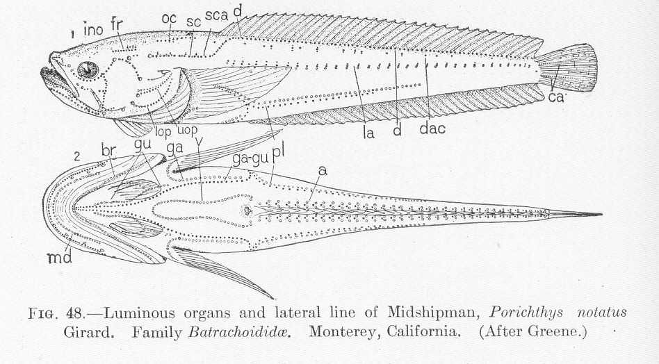 Luminous organs and lateral line of Midshipman, Porichthys notatus Girard. Family Batrachoididae. Monterey, California Subject: Pllainfin midshipman--Anatomy, Porichthys--Anatomy Tag: Fish